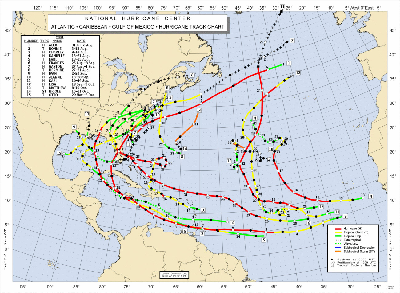 Season summary provided by NOAA of the 2004 Atlantic hurricane season.